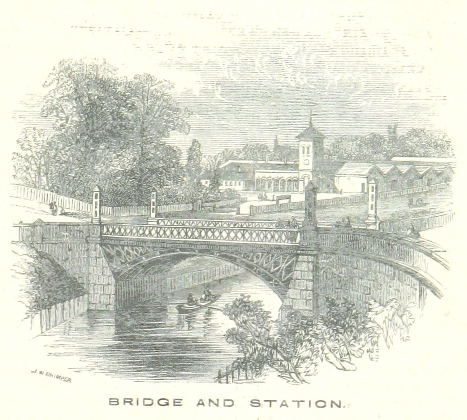 View over the Prince of Wales Road bridge to Norwich railway station, as depicted in 1851. The station was rebuilt to its present form in 1886.